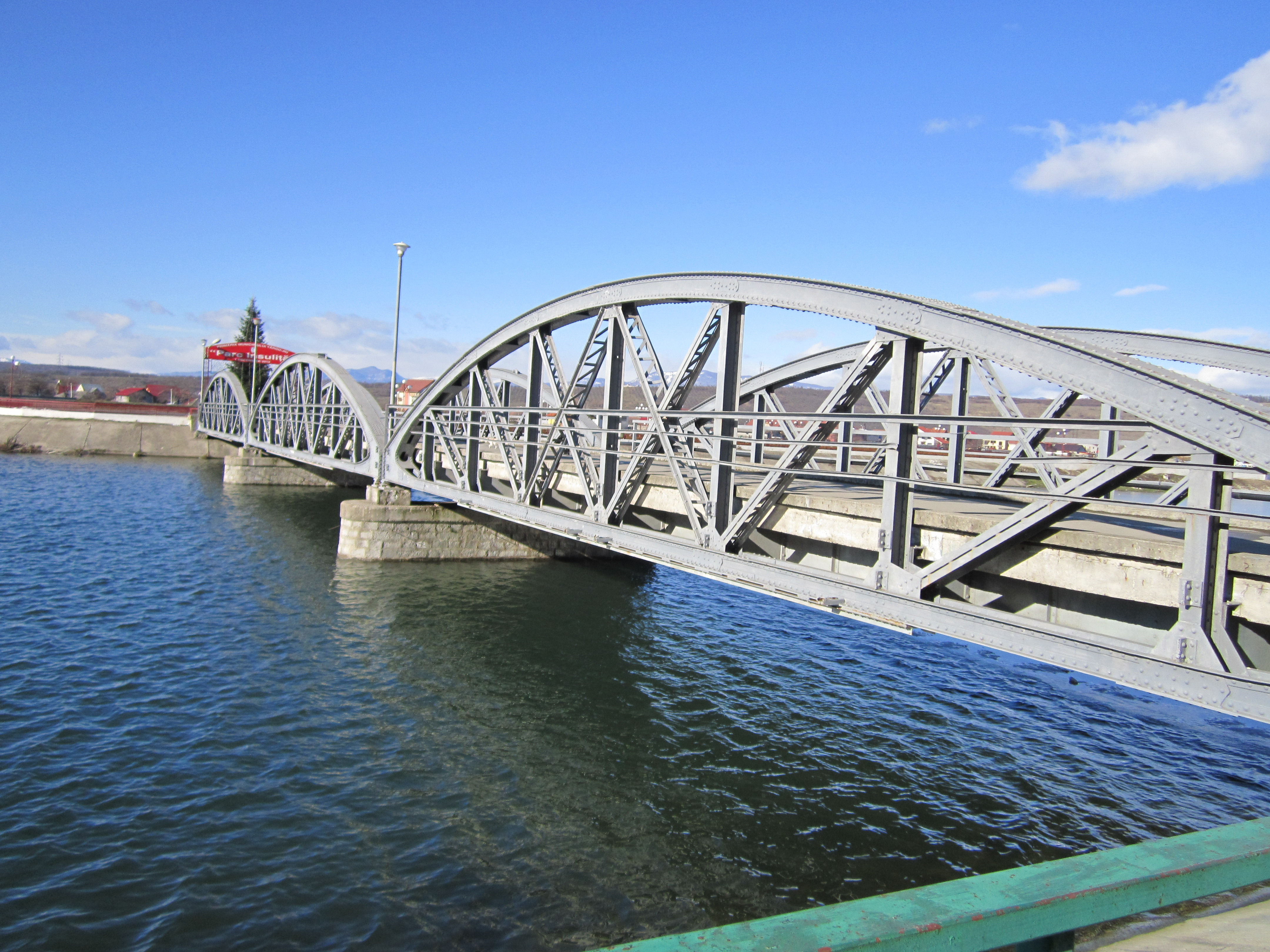 Old Jiu Bridge Tragu Jiu in its new location 2013